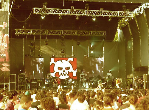 Asesinos Cereales playing in Buenos Aires Argentina in Club Ciudad